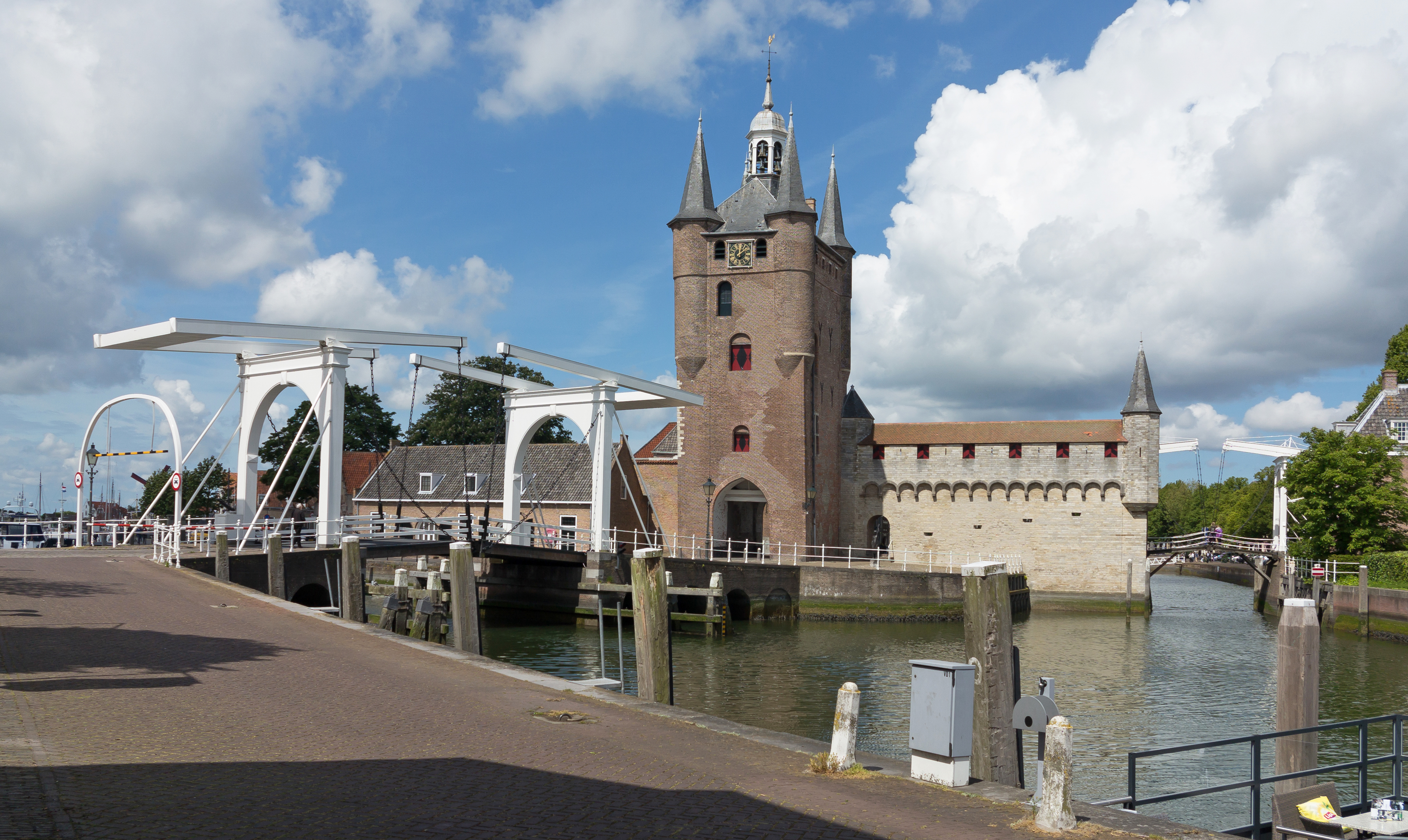 Zierikzee, towngat (de Zuidhavenpoort) in the street